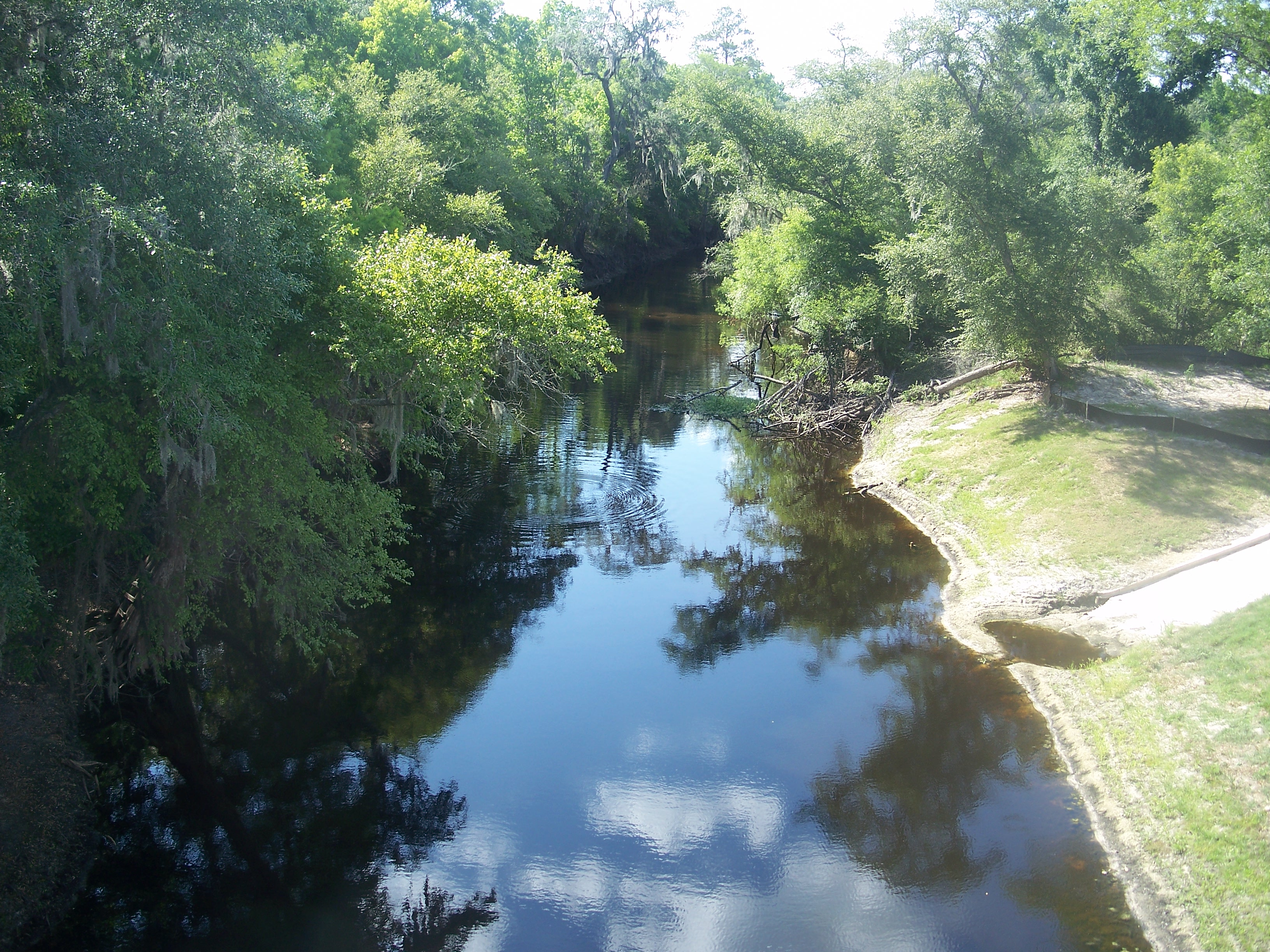 Santa Fe River, near SR 121. It forms the Alachua-Union county border